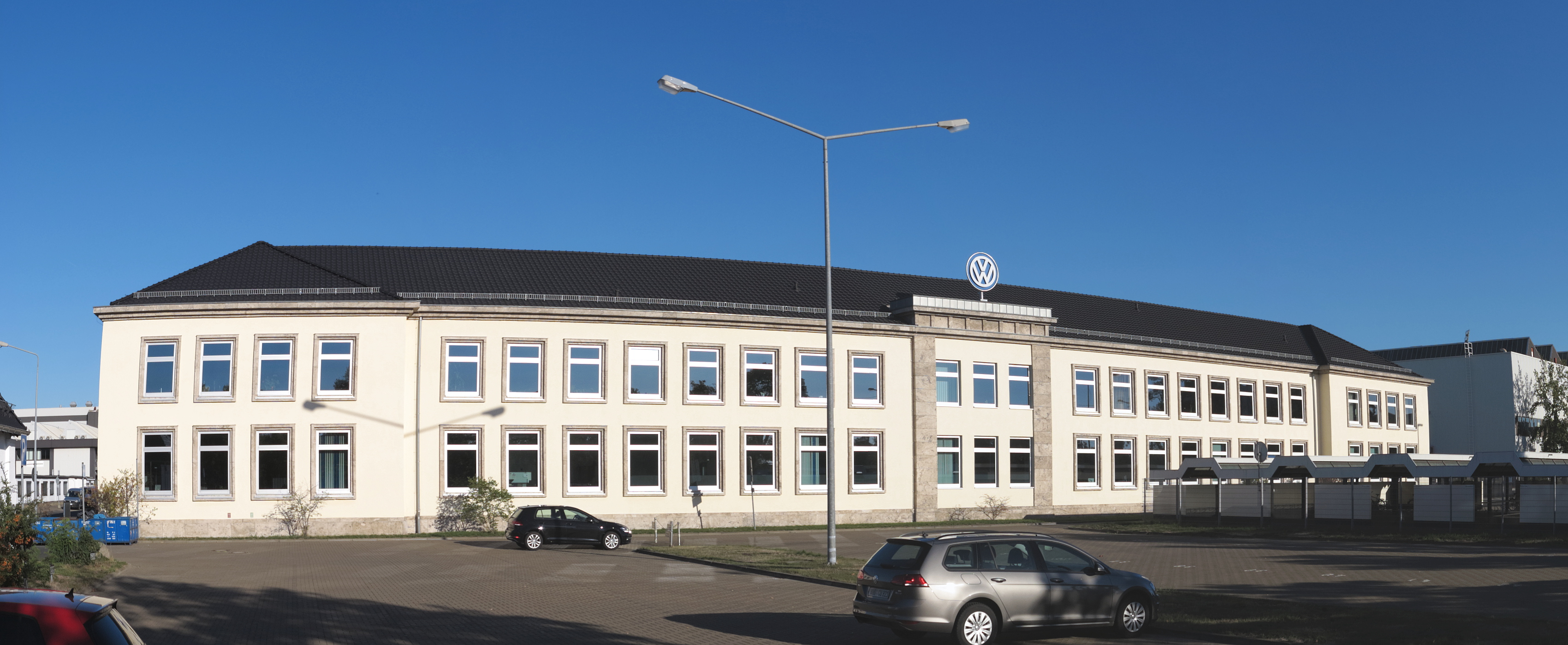 The administrative building of the Volkswagen plant Brunswick, Germany. Being built in February 1938 it is the oldest plant of Volkswagen AG.